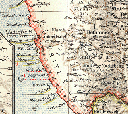 German South-West Africa: Lüderitzland (1905). Post-editing: mark Bogen-Fels